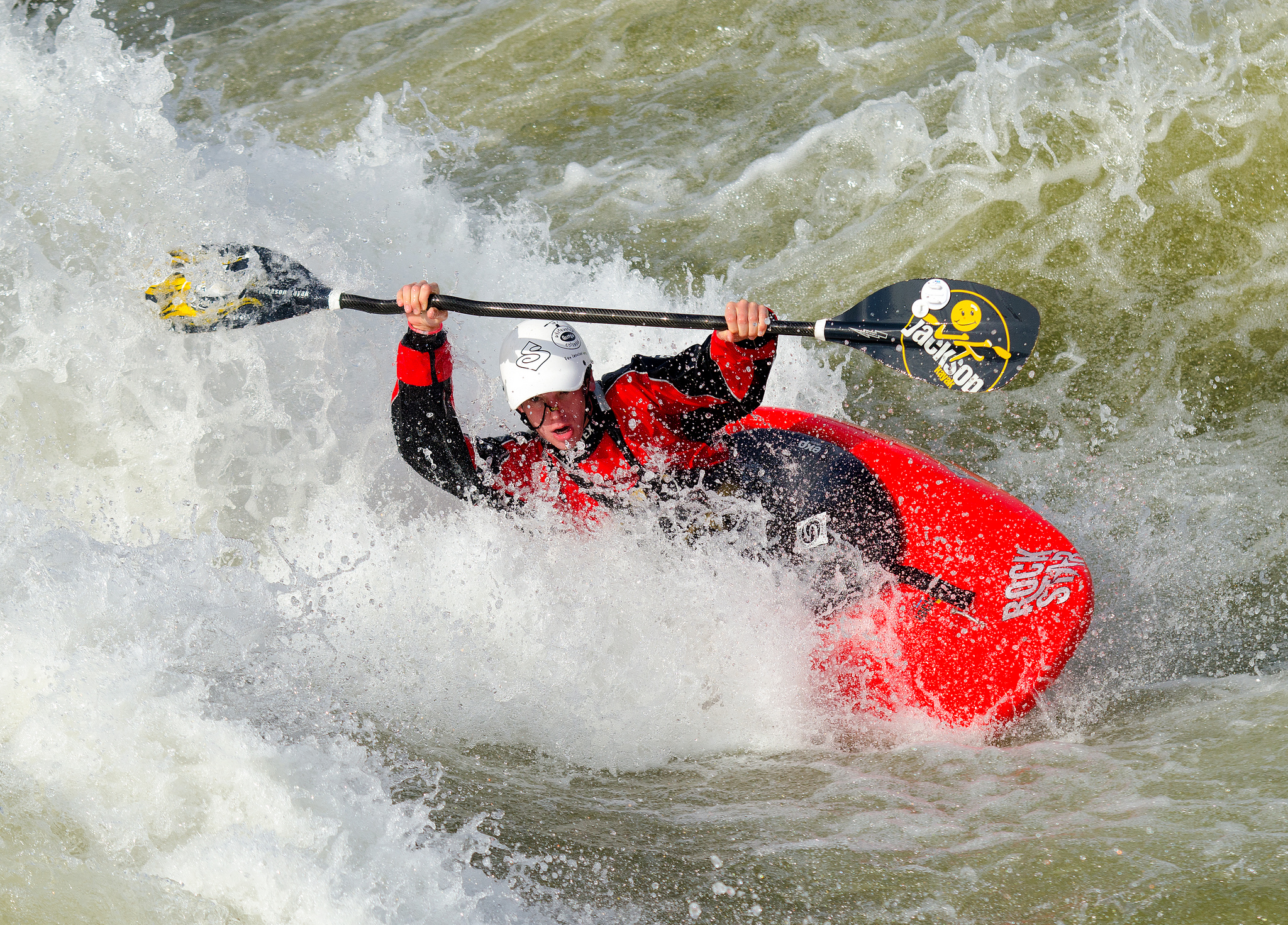 Hunter Katich is a local paddler and former 2013 Junior Men's World Champ. He helps to educate and promote the Chattahoochee River not only in kayaking/white water, but clean ups.